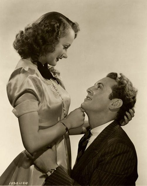 Lynne Carver & Allan Jones in Everybody Sing - publicity still (original image damaged, modified : see source)